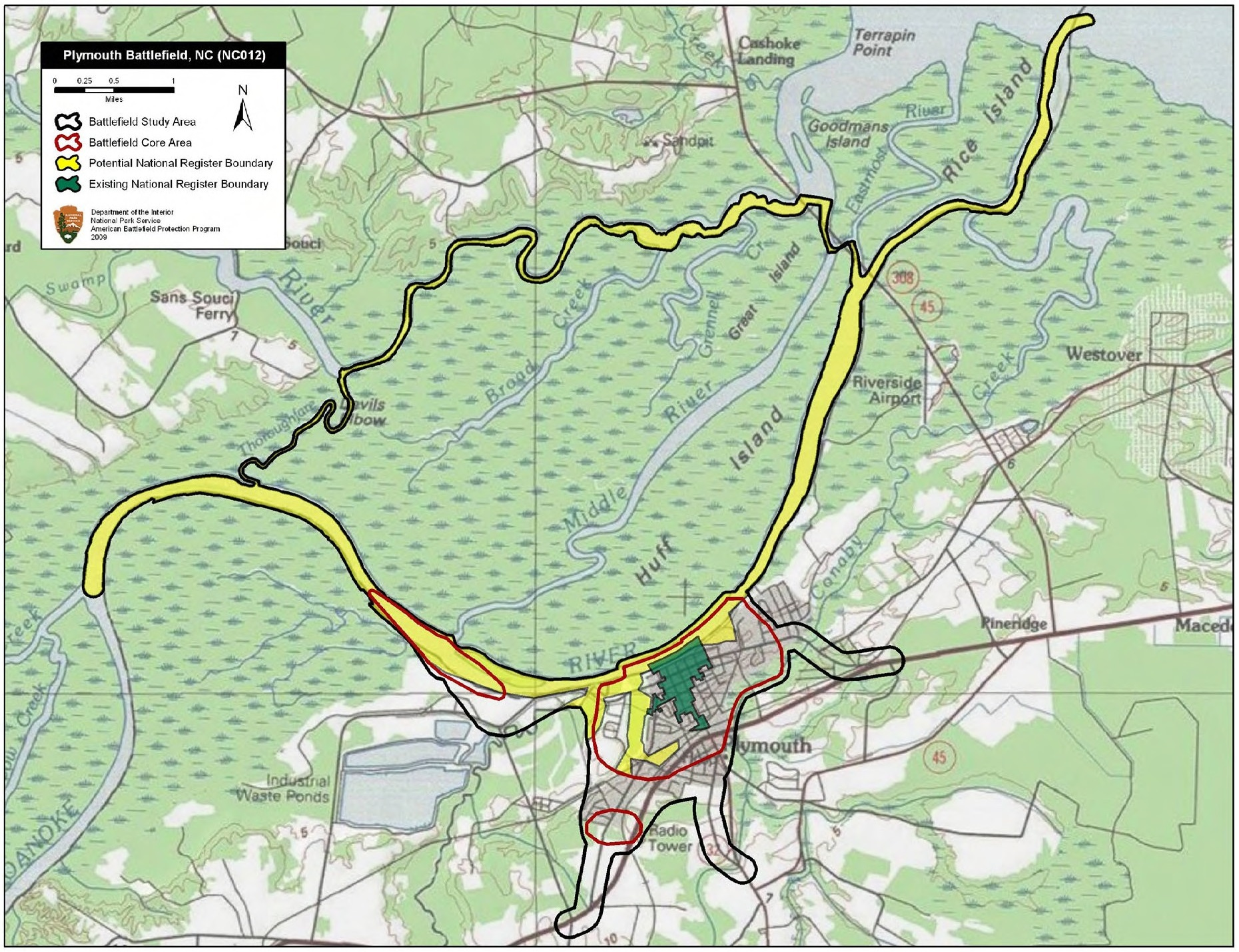 Map of battlefield core and study areas. The revised Study Area includes waterways associated with the CSS Albemarle’s approach and the Federal navy’s retreat. It also includes the three approach routes used by the Confederate army from the south and east of the town. Two Core Areas were added. The western Core Area represents the Union naval bombardment of a Confederate sand battery west of town. The small southern Core Area reflects an engagement associated with a limited Union sortie against the Confederate line.